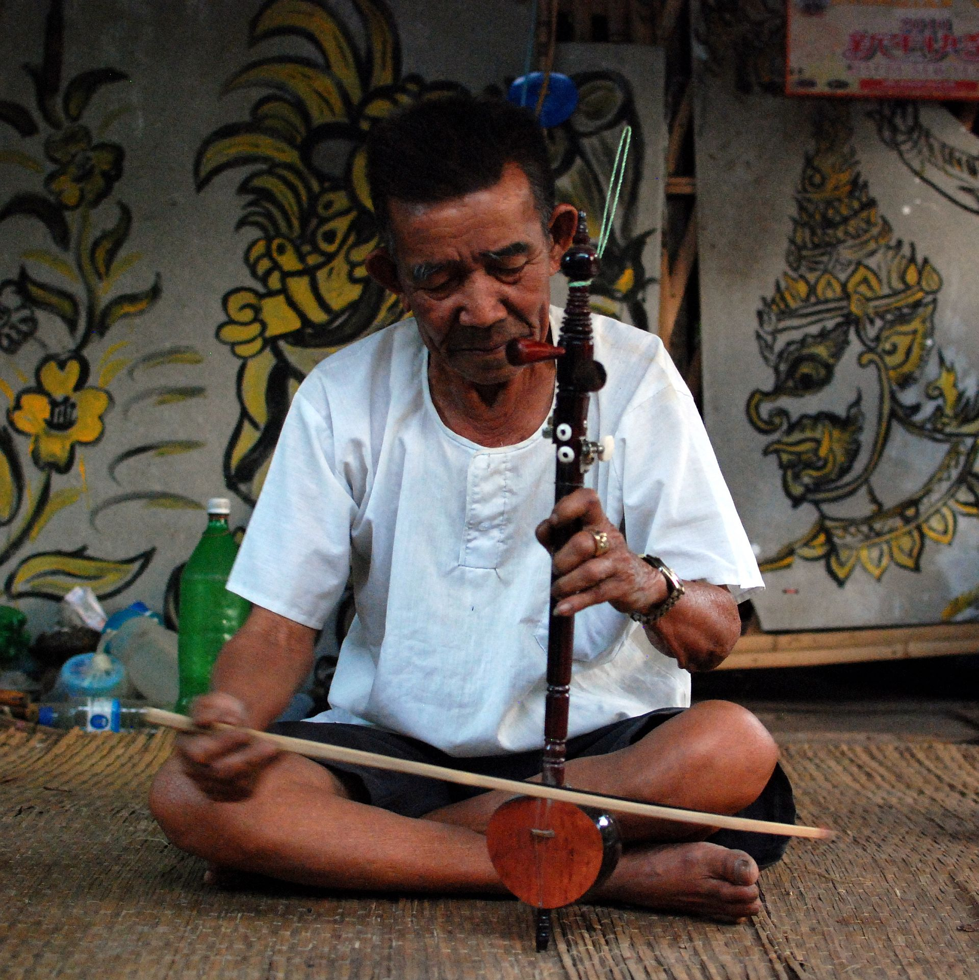 A teacher of traditional music at his house in Mae On, just outside Chiang Mai, plays a so u (Thai script: ซออู้, pronounced as "saw ooh"). Besides being a music teacher, he is also an instrument maker and all his instruments have been crafted by himself.